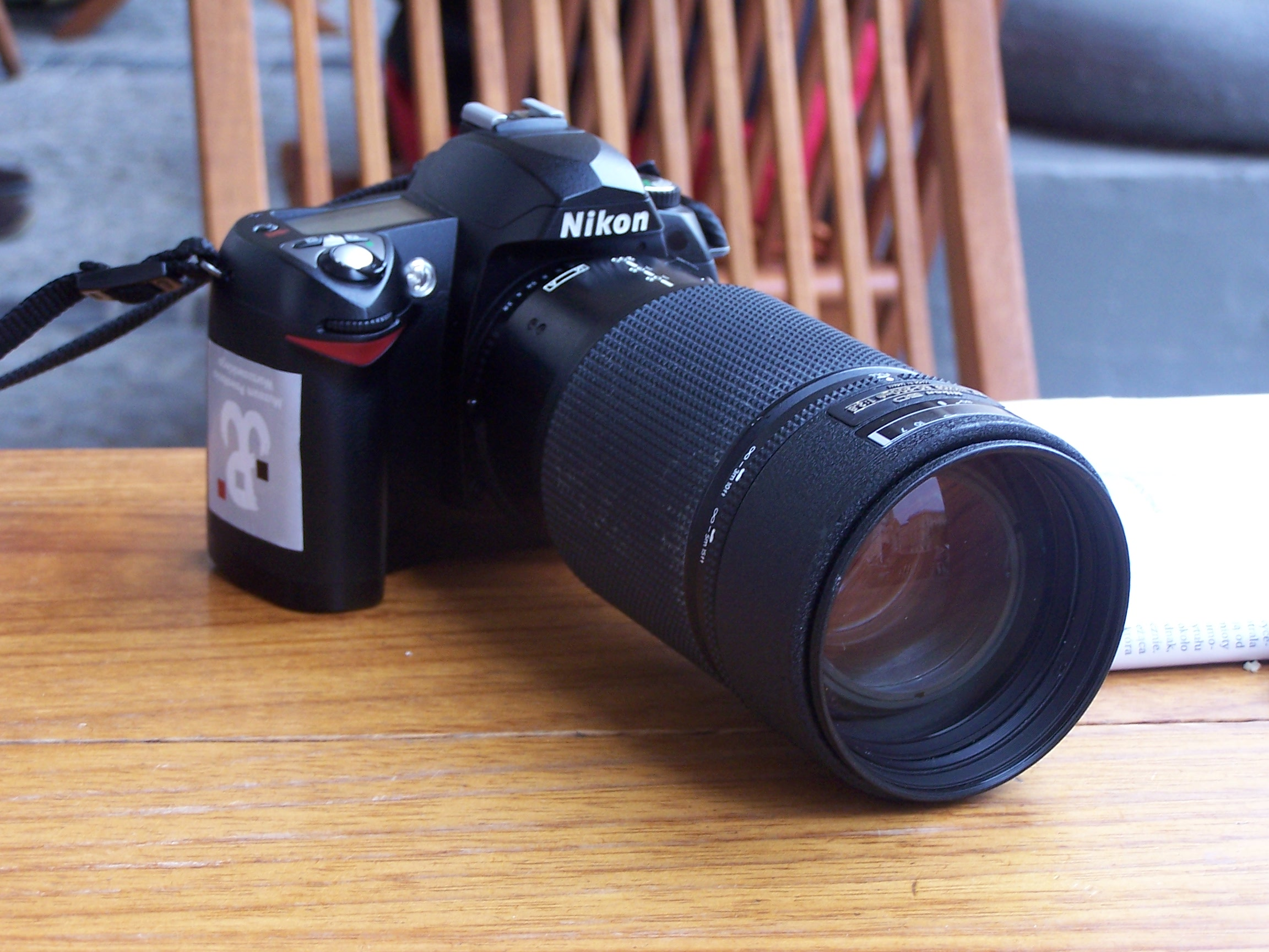 Nikon D70 camera. Photo by myself, summer 2006.